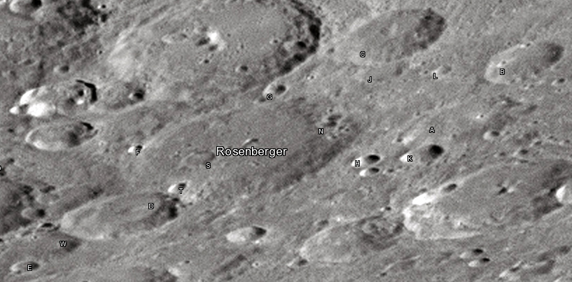 Rosenberger lunar crater as seen from Earth with satellite craters labeled